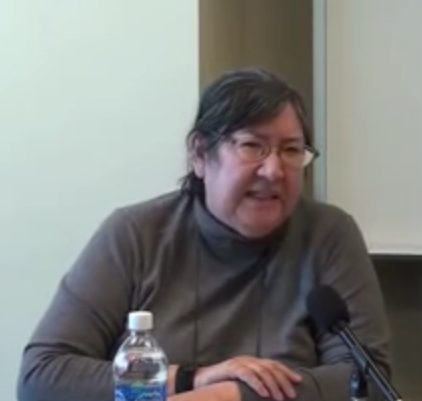 Marie Annharte Baker crop from Marie AnnHarte Baker presentation on Panel on Aboriginal Writing in Canada, I'POYI Aboriginal Gathering March 26, 2009.